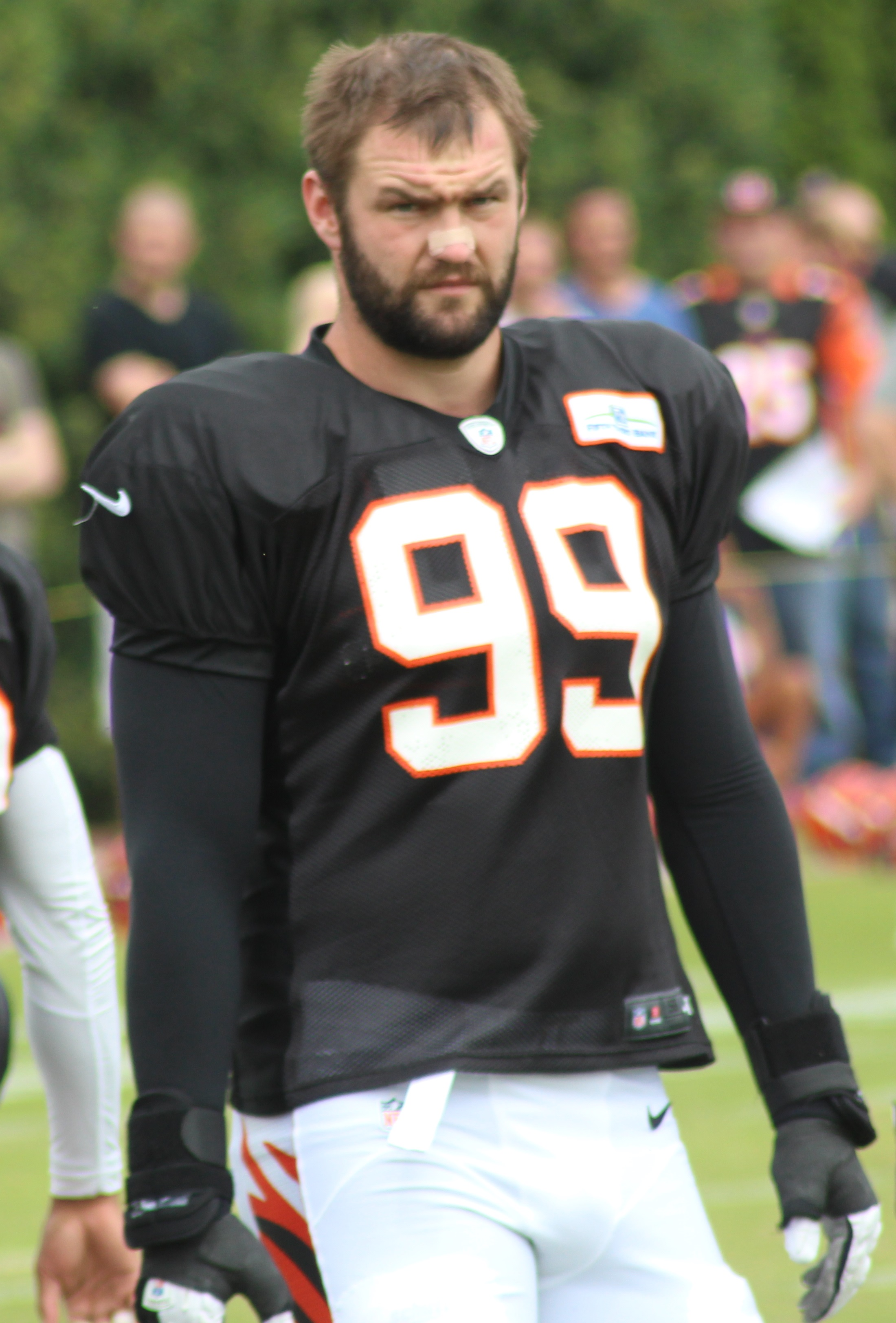 Margus Hunt at 2014 Bengals training camp.